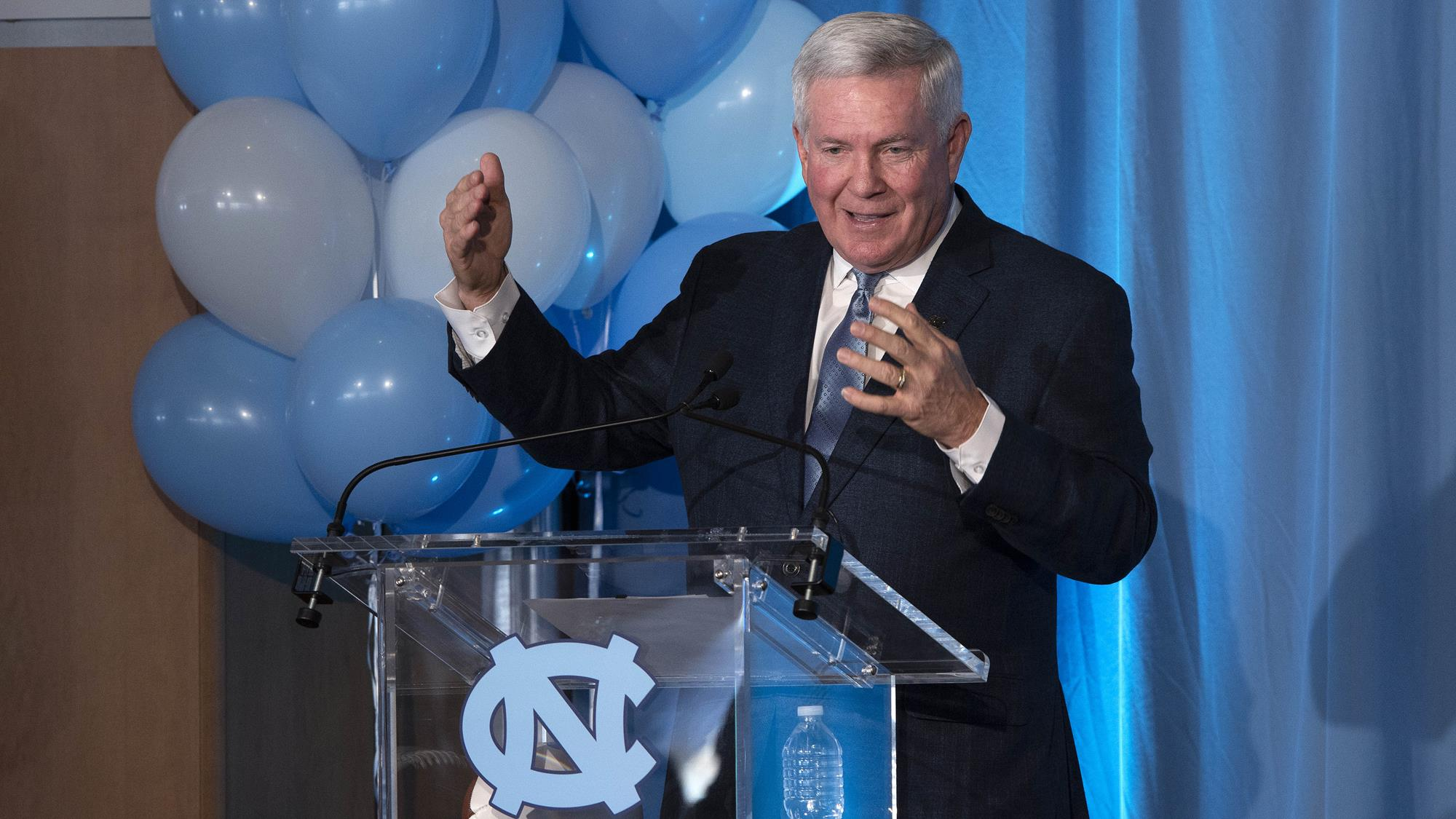 Mack Brown at UNC press conference